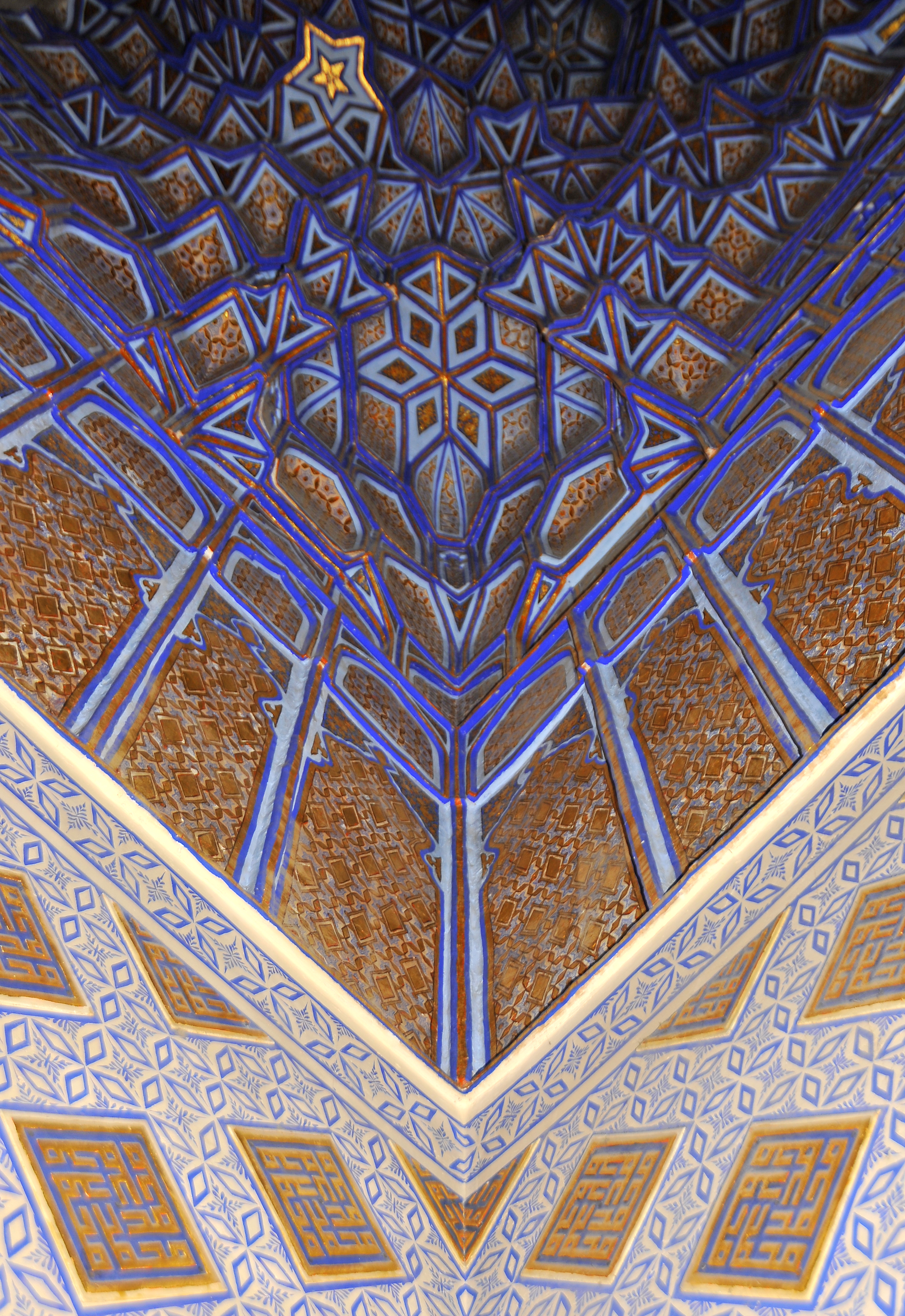 Decoration inside the Timur Lang Mausoleum [Gur-e Amir]: muqarnas. Samarkand, Uzbekistan